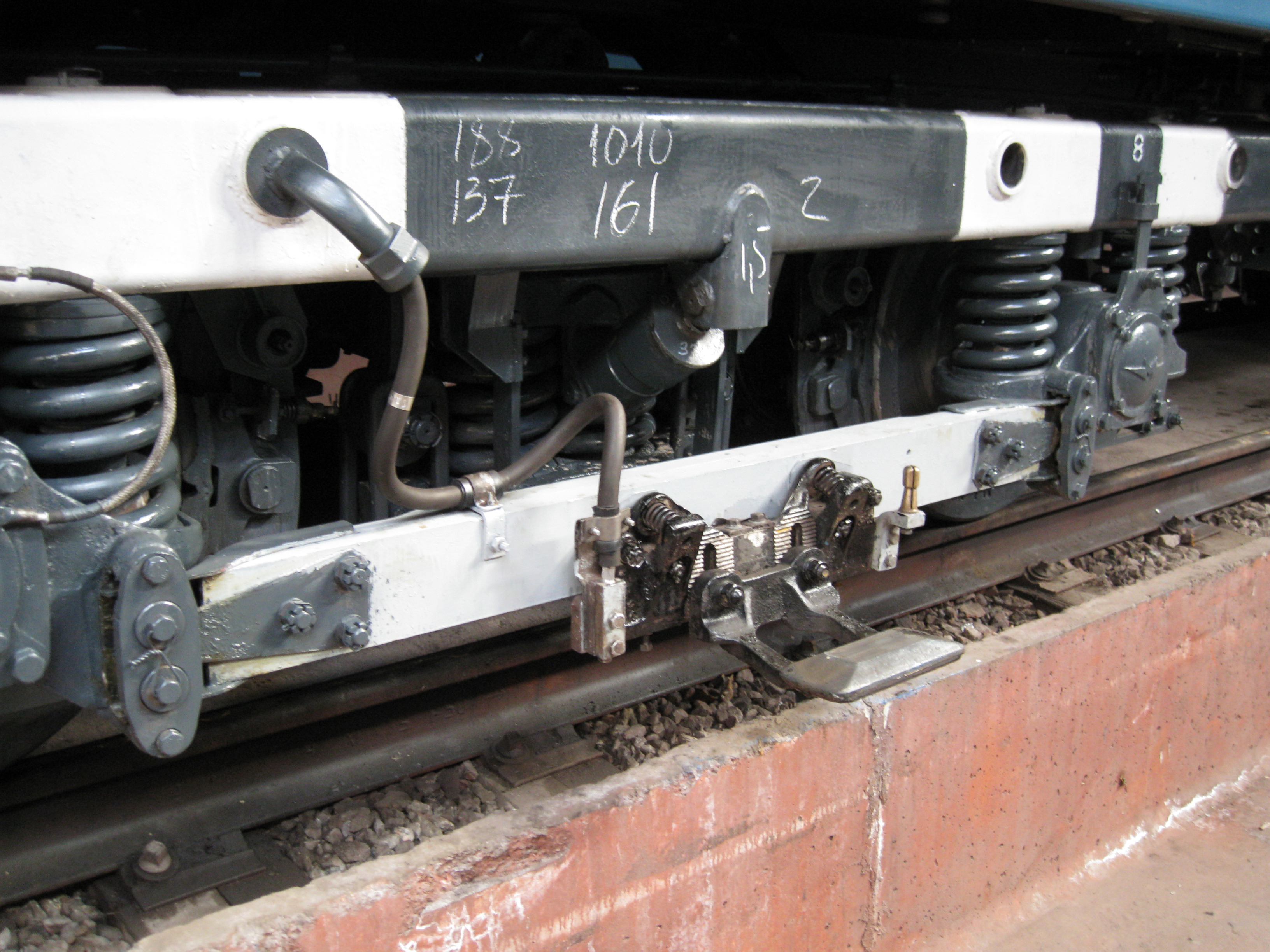 Third rail contact shoe of Saint-Petersburg Subway car.